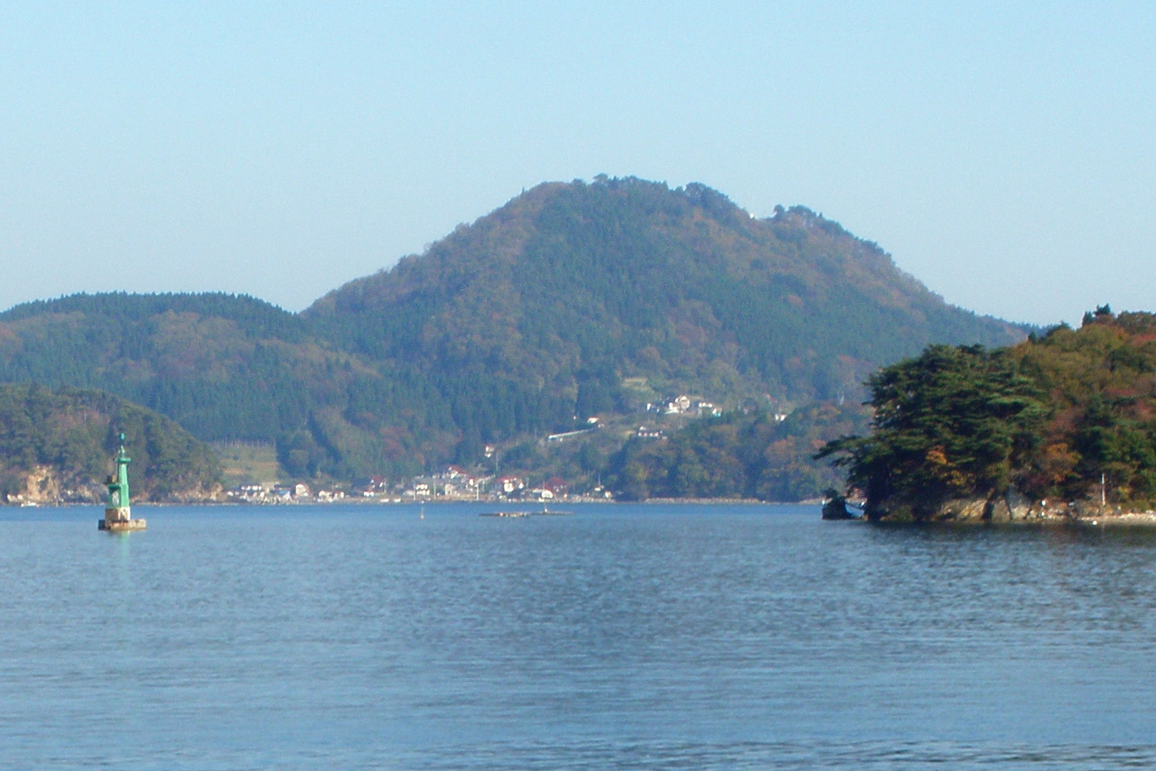 Mount Hayama (Hayama-san) seen from the WSW, in Kesennuma, Miyagi, Japan.